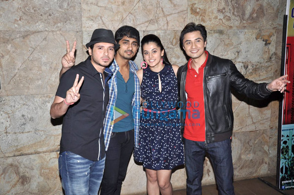 Cast of Chashme Baddoor during the special screening of the film